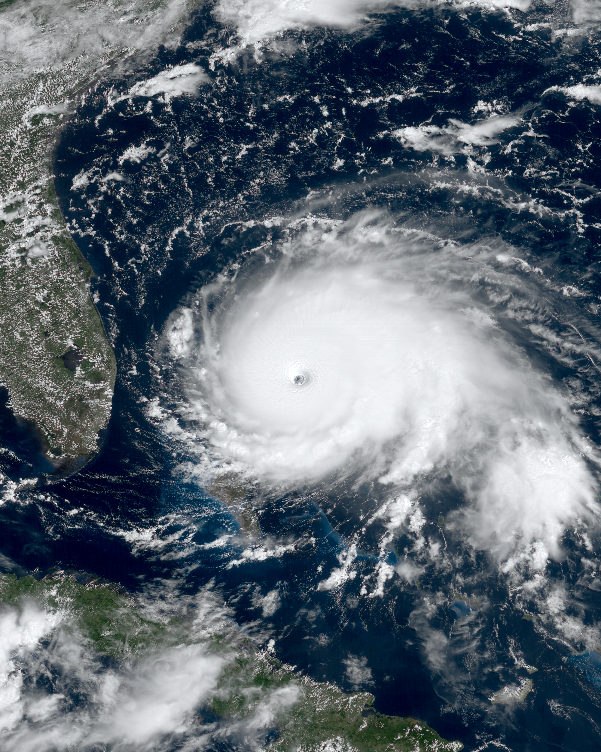 Hurricane Dorian at peak intensity on September 1, 2019.